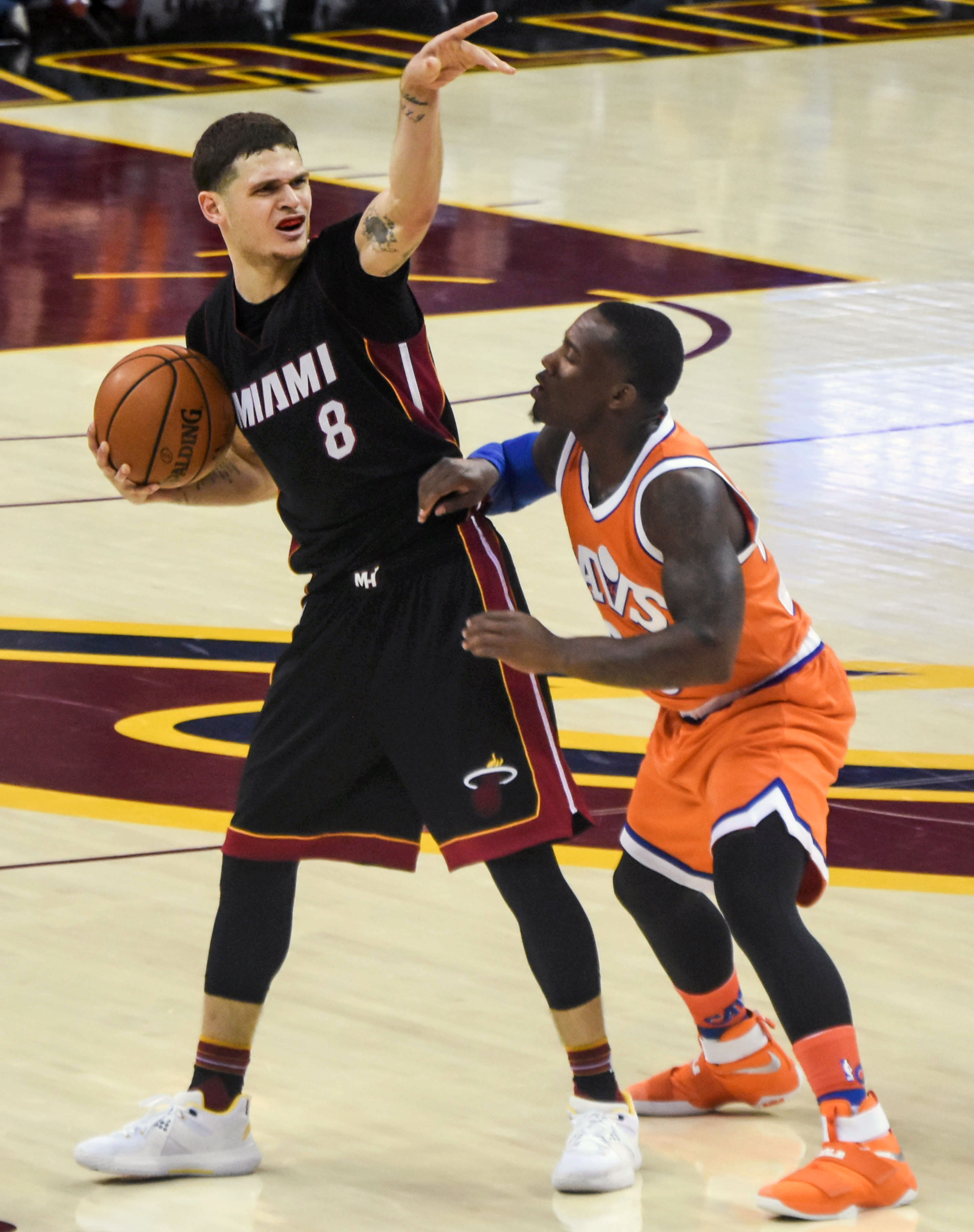 Tyler Johnson of the Miami Heat being defended by Kay Felder of the Cleveland Cavaliers